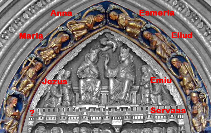 Maastricht, the Netherlands, Basilica of St Servatius. Detail of the early Gothic South Portal or Bergportaal (±1170-1215). On the archivolt: The family tree of Saint Servatius, based on The Holy Kinship.